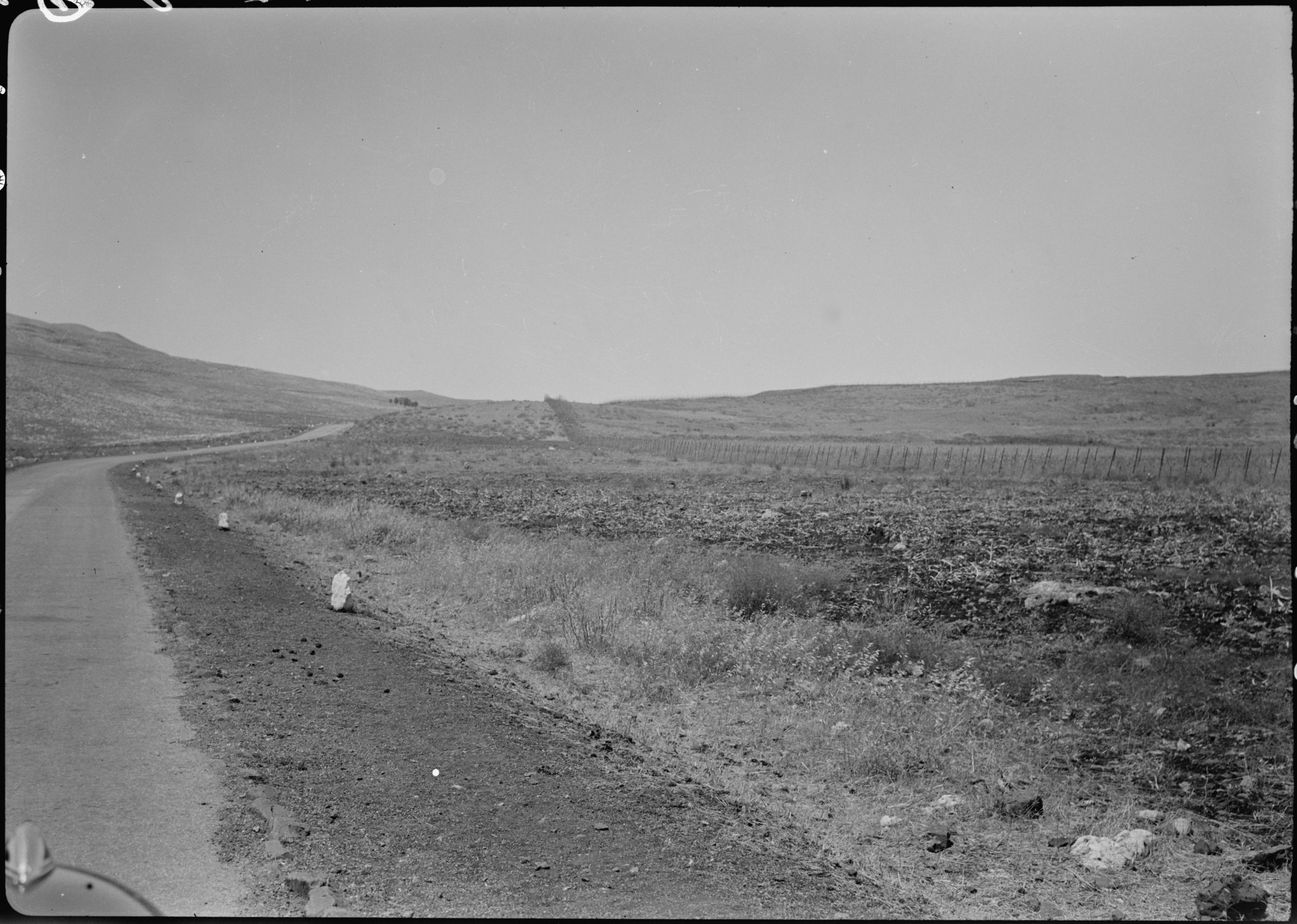 Title: "Teygart [i.e., Tegart] Wall" wire fence on North frontier Abstract/medium: G. Eric and Edith Matson Photograph Collection Physical description: 1 negative